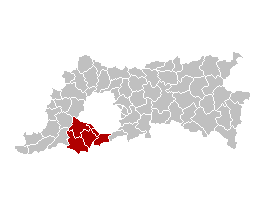 Zennevallei, Flemish Brabant